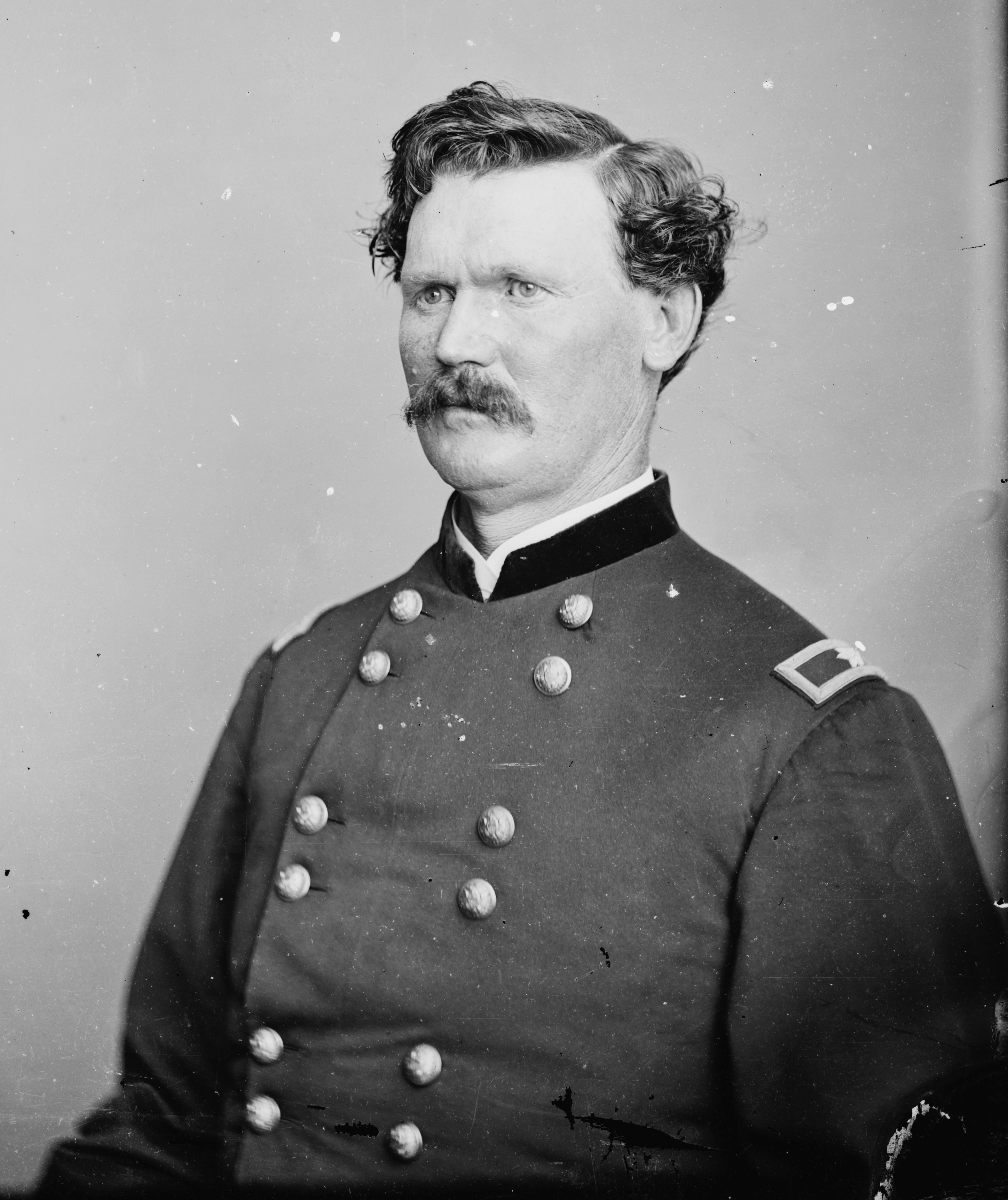 Robert Kingston Scott. Library of Congress description: "Gen. R. K.[?] Scott, U.S.A."